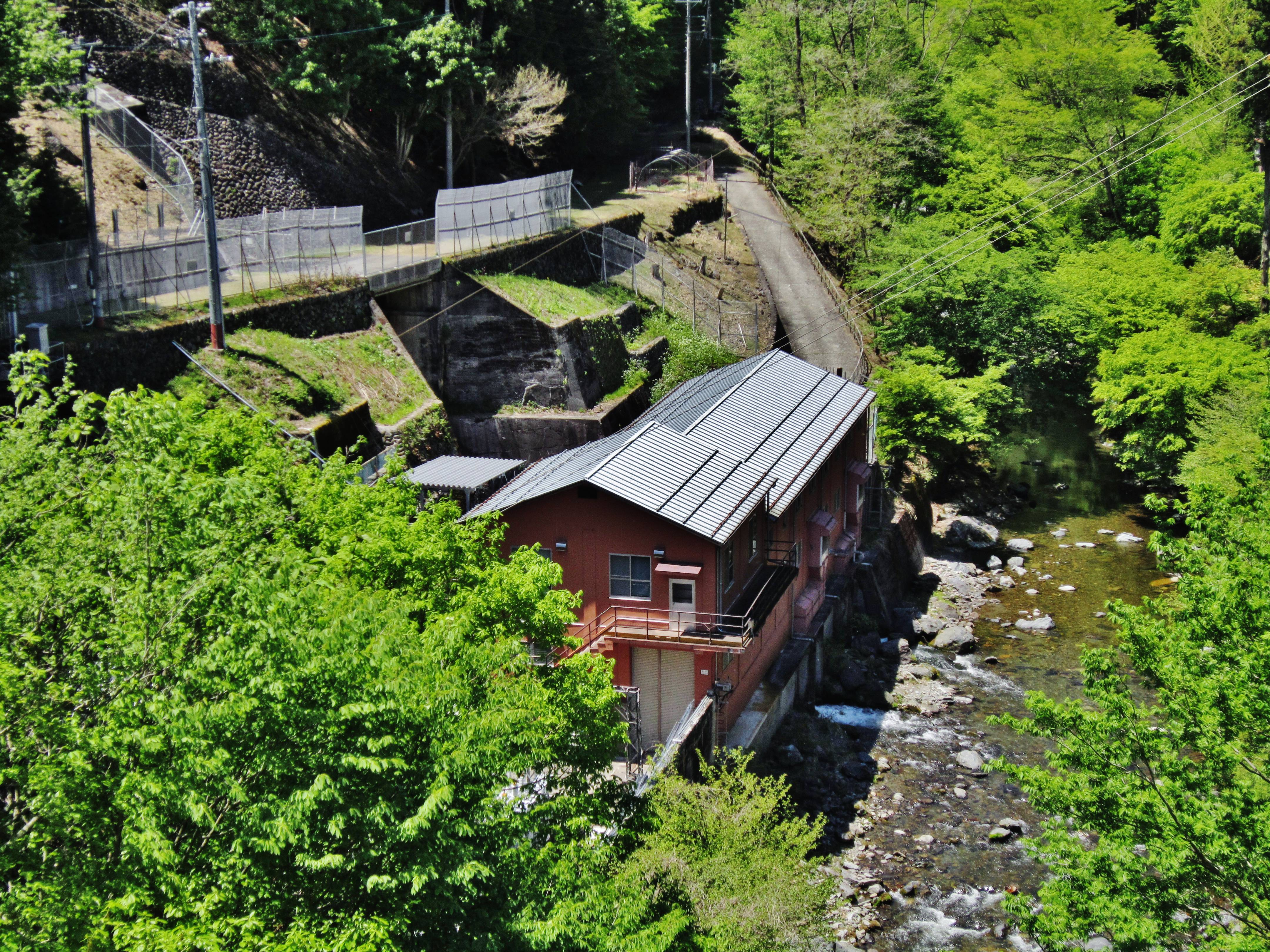 Kawamata hydroelectric power station.